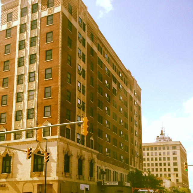 Genesis Towers and Gary State Bank Building from 6th Avenue & Broadway